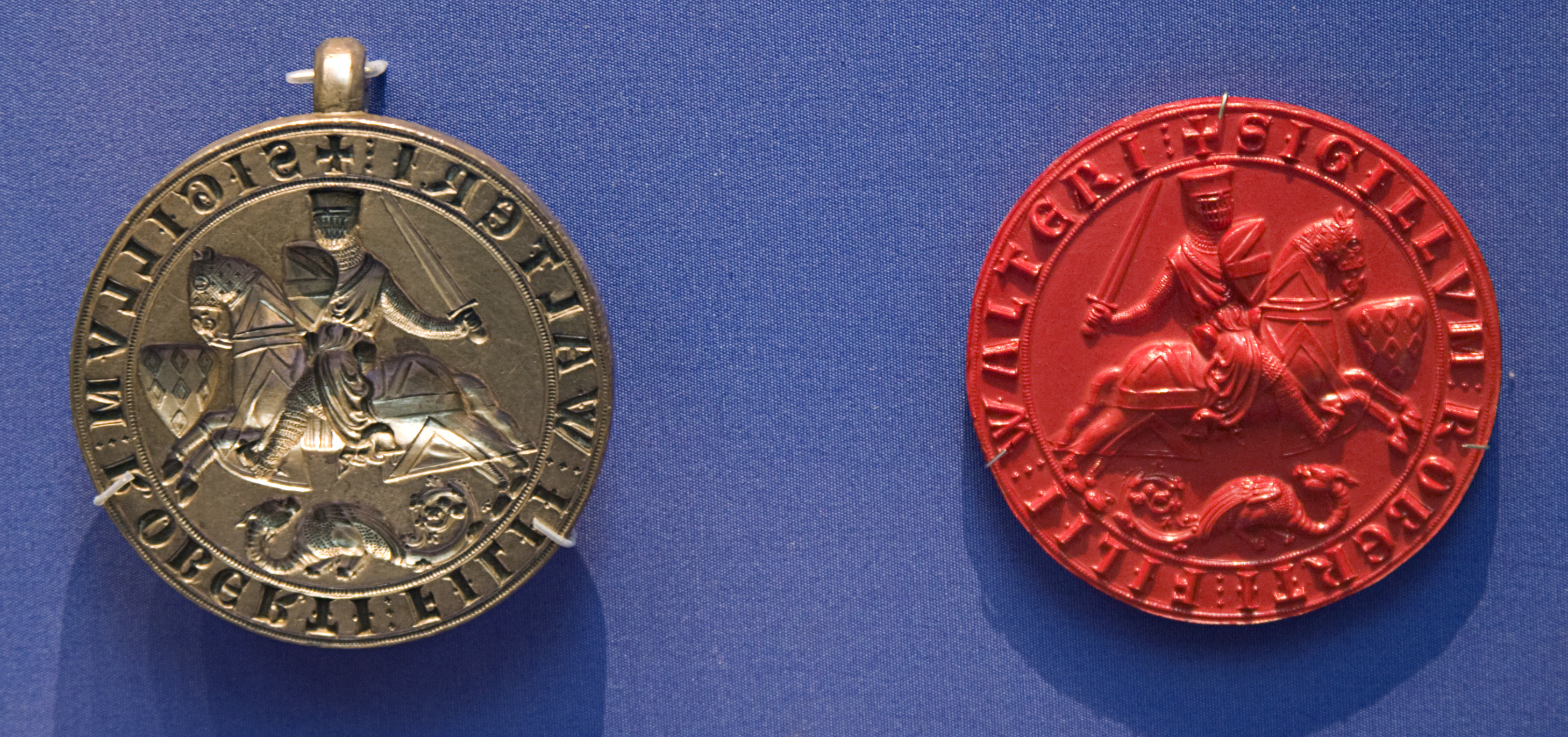 Medieval seal in the British Museum. Tag on exhibit reads: "Seal of Robert Fitzwalter" and "About 1213-19 England Silver PE 1841,0624.1" See BM database entry for more details.